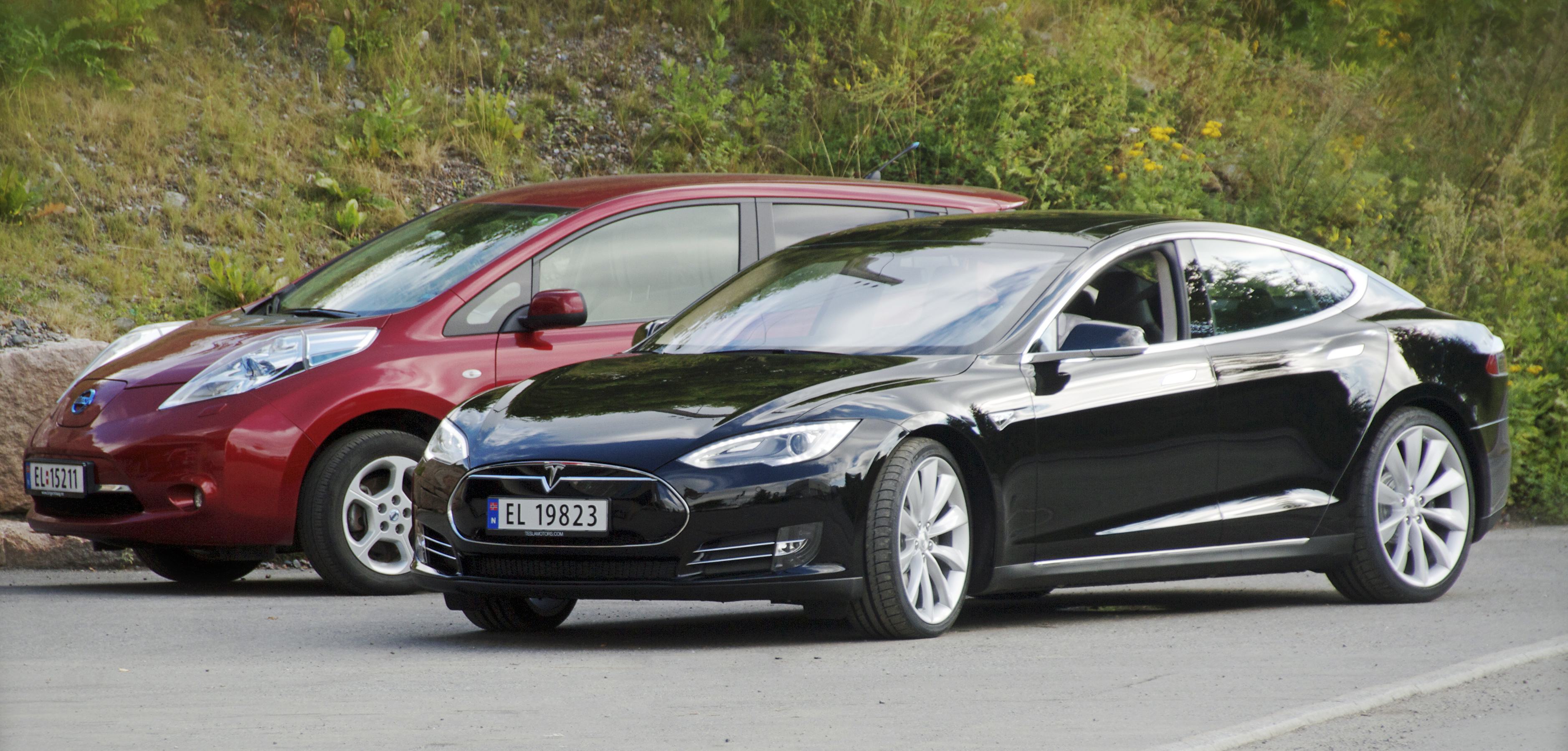 Tesla Model S (front) and Nissan Leaf (back) in Norway